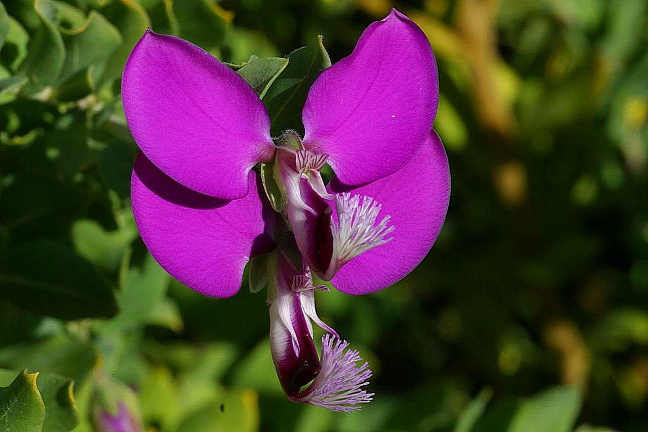 Image title: Purple flower at park Image from Public domain images website